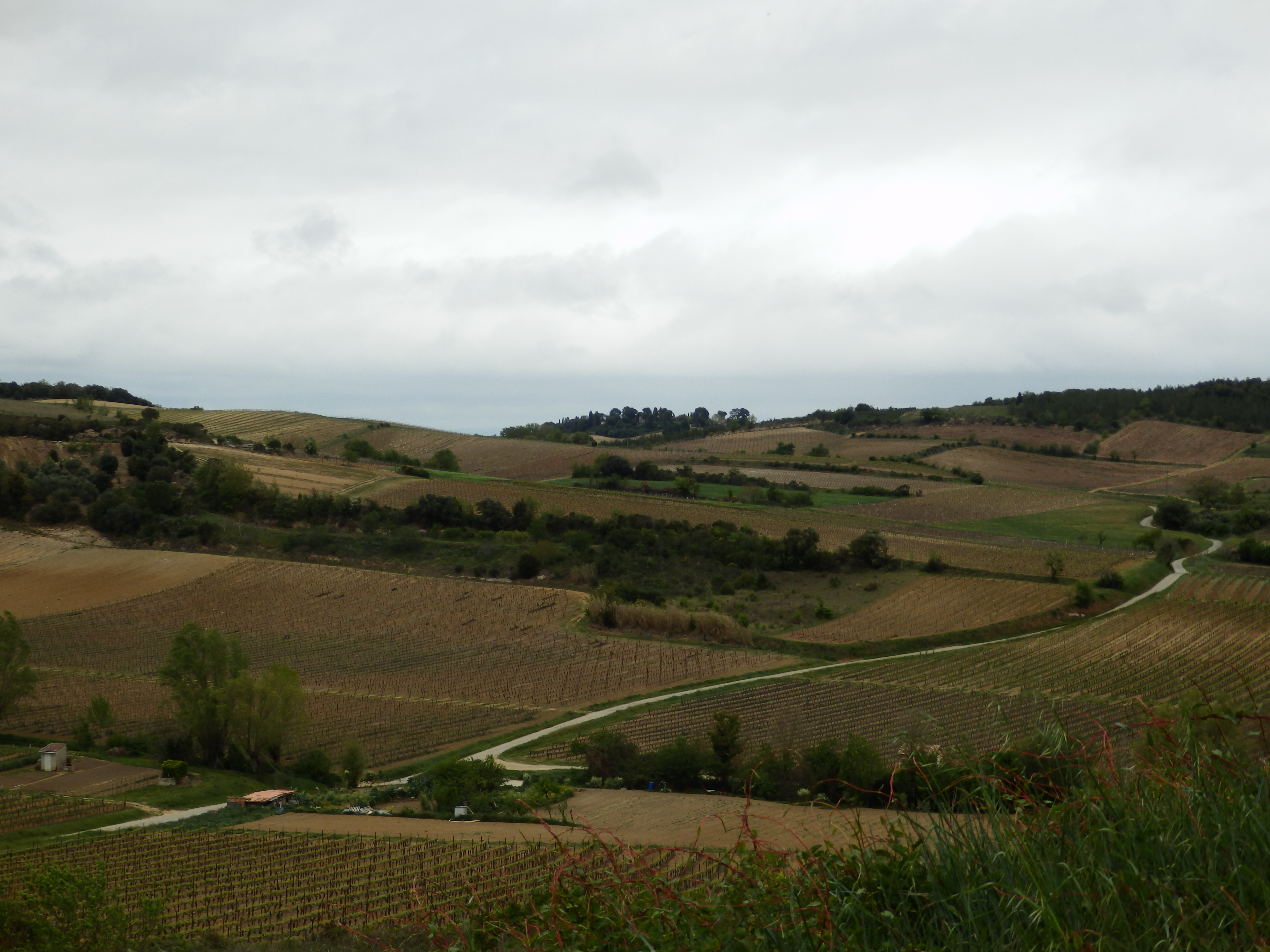 Landscape in Pauligne, Aude, France